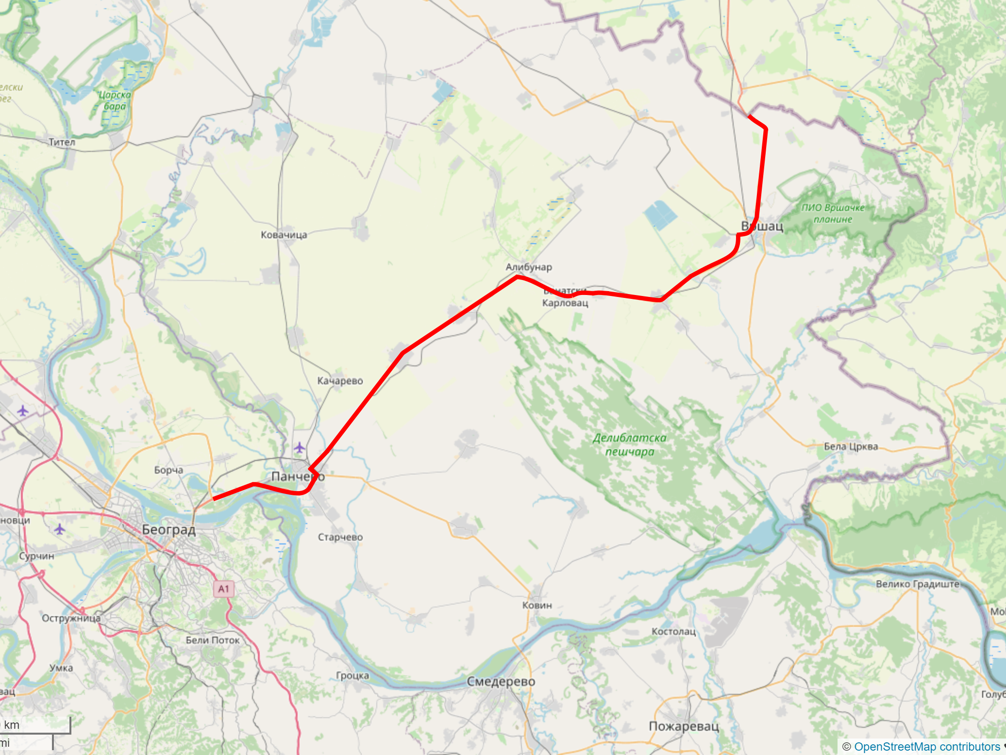 Map of National/State IB-class road 10 in Serbia.